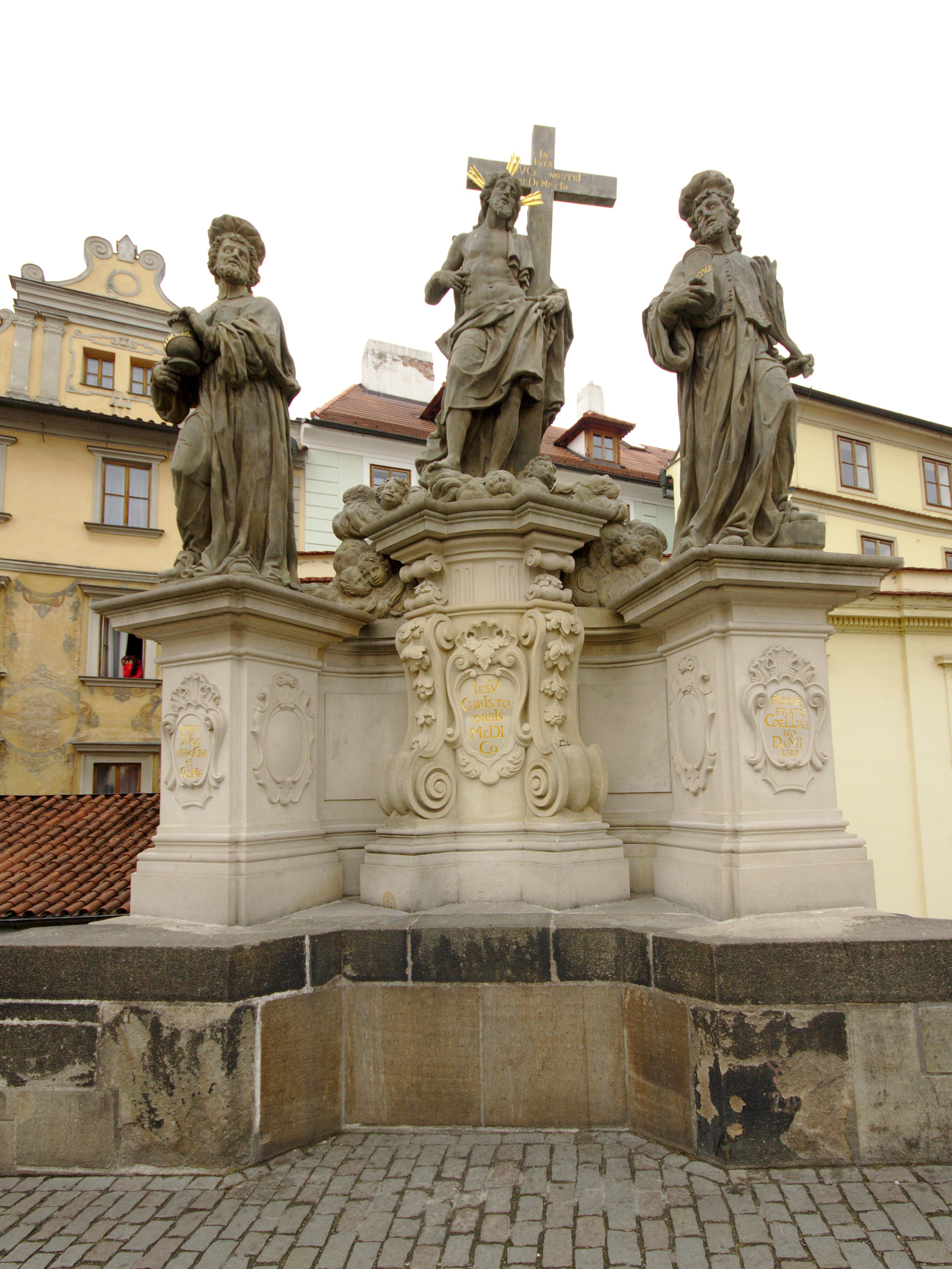 Sculpture of Saints Cosmas and Damian on Charles Bridge